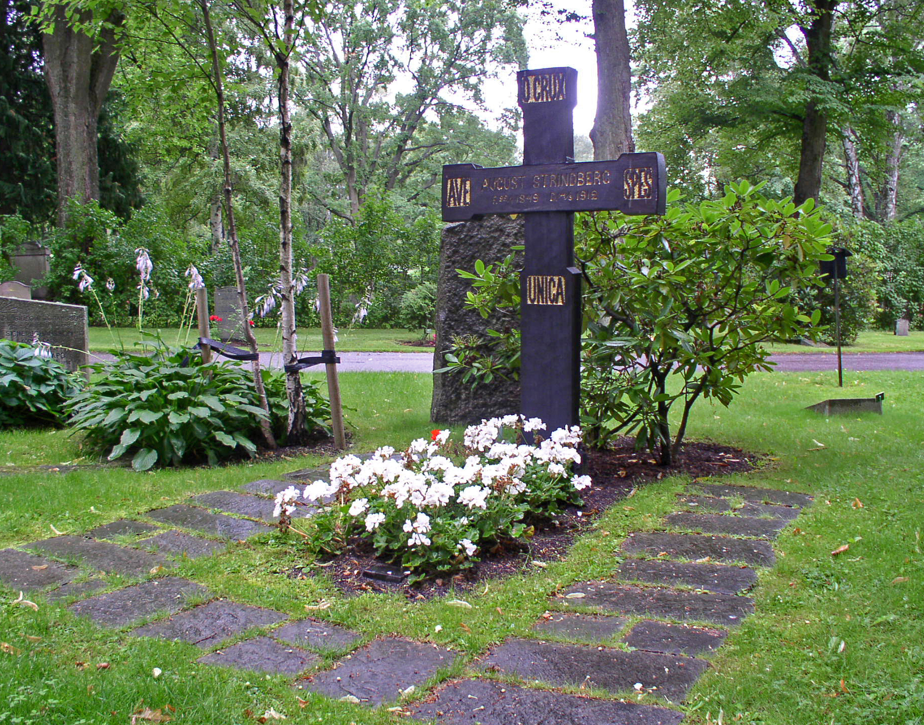 August Strindberg's grave in Stockholm, Sweden. Caption: O CRUX AVE SPES UNICA.